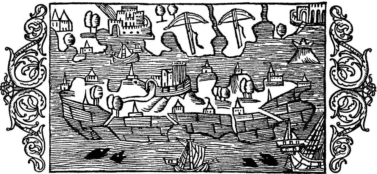 The woodcut shows Öland. The southern part is to left in the picture and the north to the right. We see how the island is built up of layers of limestone. The castle on Öland is Borgholm. The mainland is a part of Småland. Two crossbows are seen. The arms of this province consist of a lion carrying a crossbow. The castles are to the left is Kalmar, to the right Stäkeholm. The crowned rock is "Blå jungfrun" ("the Blue Virgin"). This cliff was believed to be a place where witches had meetings with the devil.